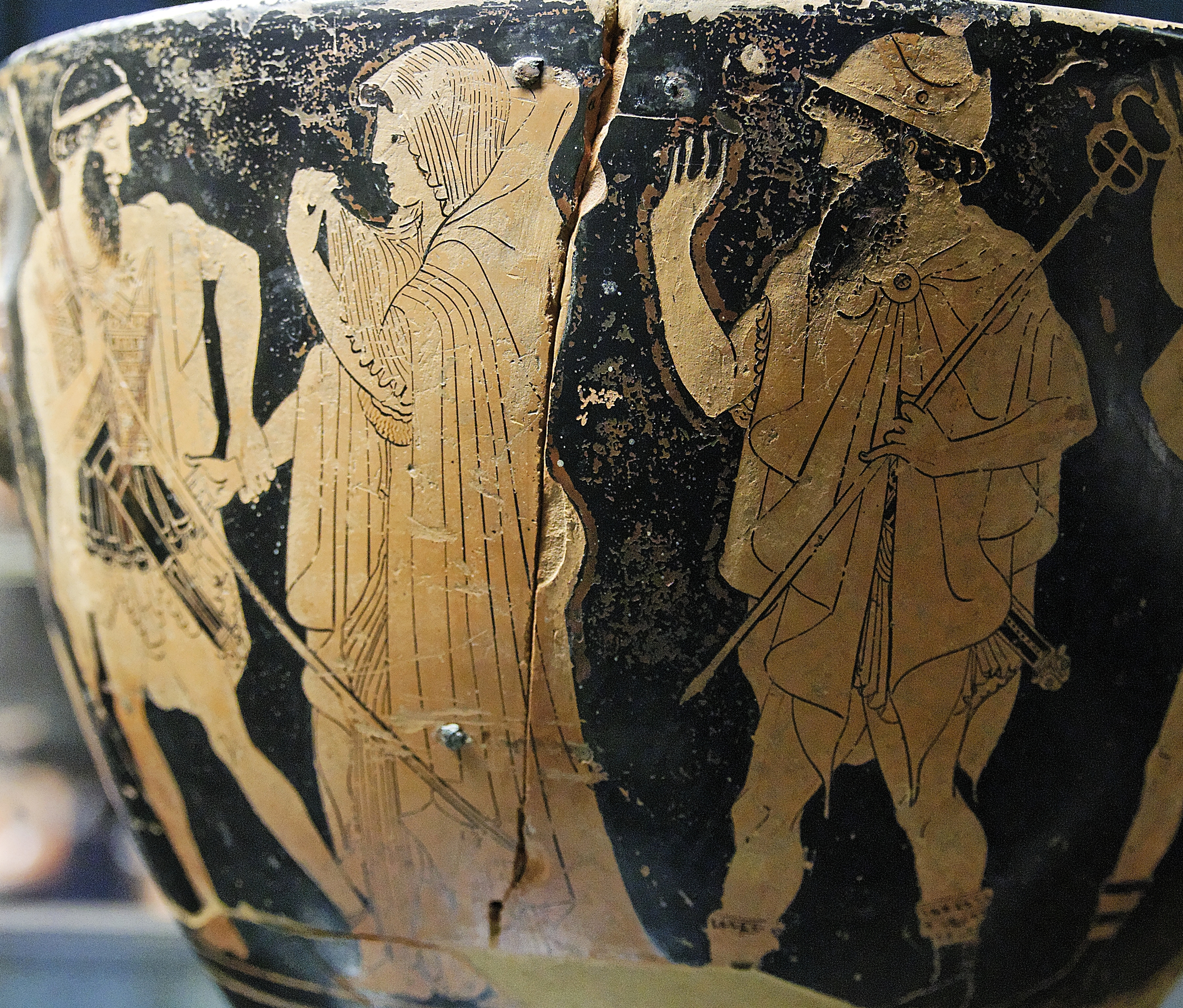 The taking away of Briseis, side B of a red-figure Attic skyphos.